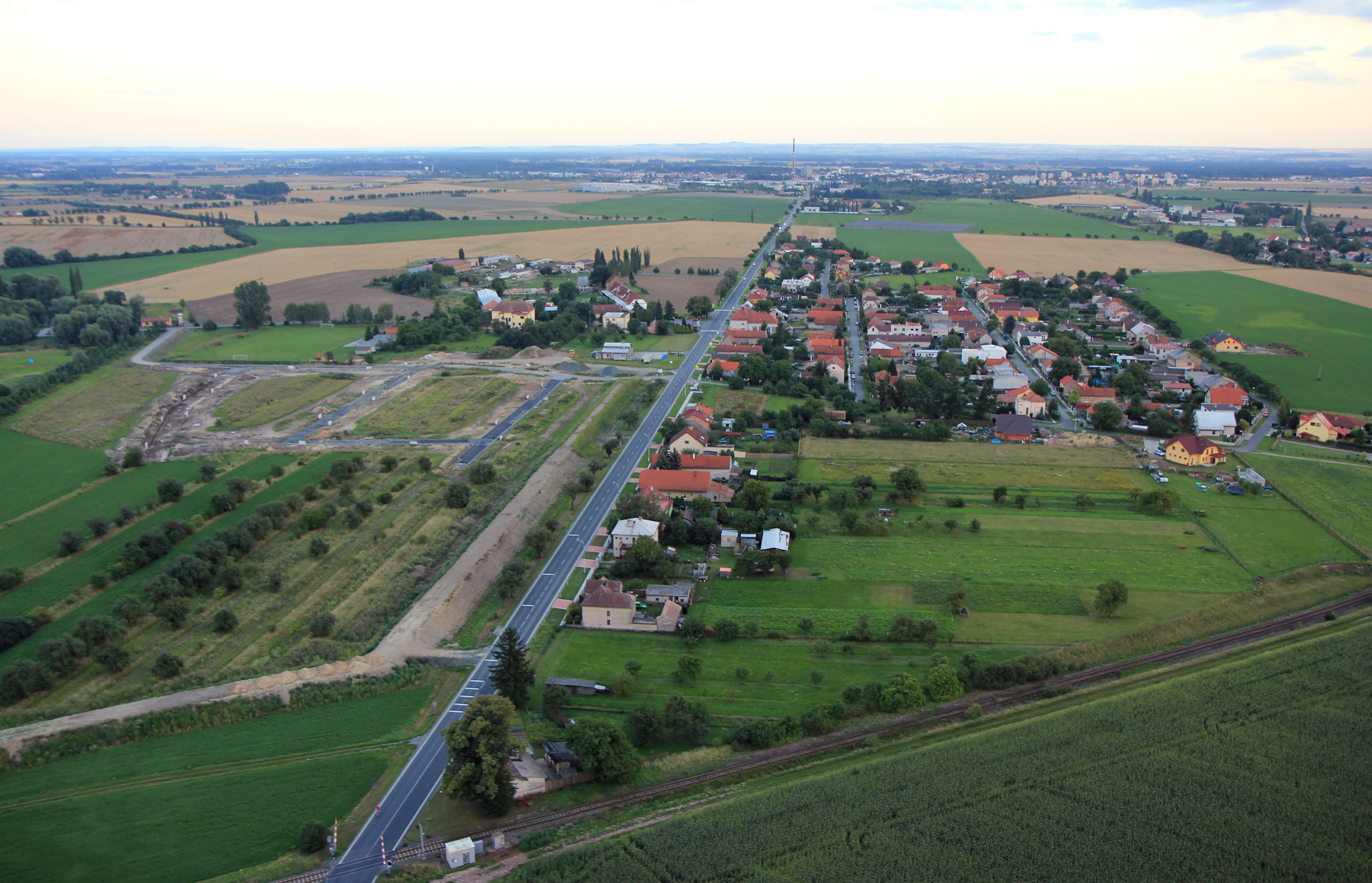 Aerial view of Všechlapy village, Czech Republic